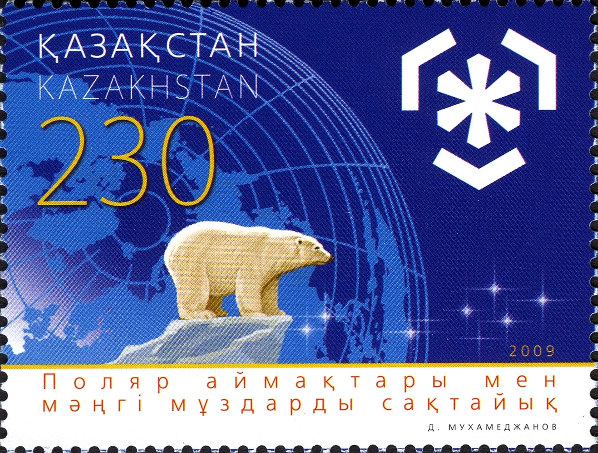 Stamp of Kazakhstan